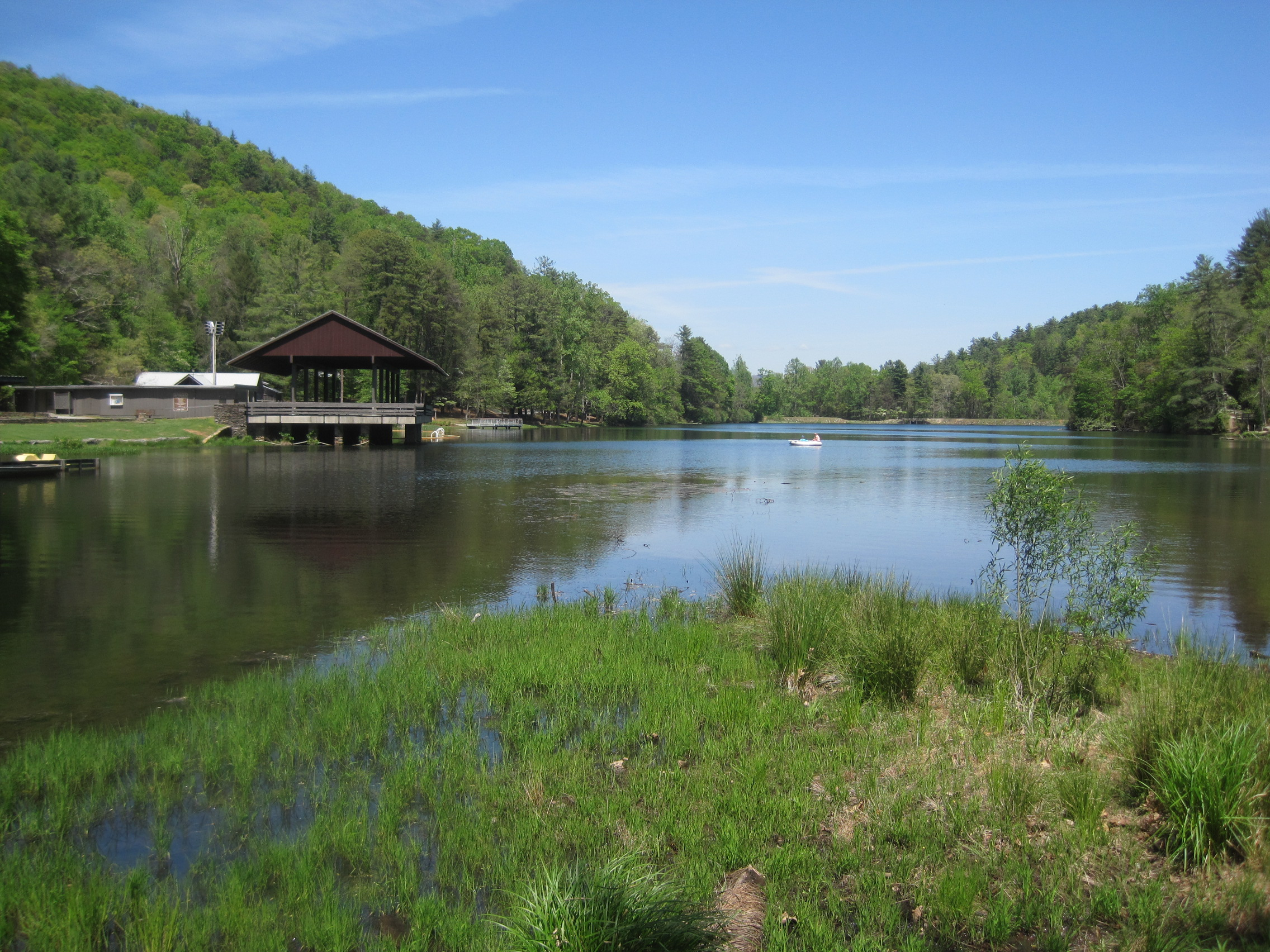 View across Lake Trahlyta facing north